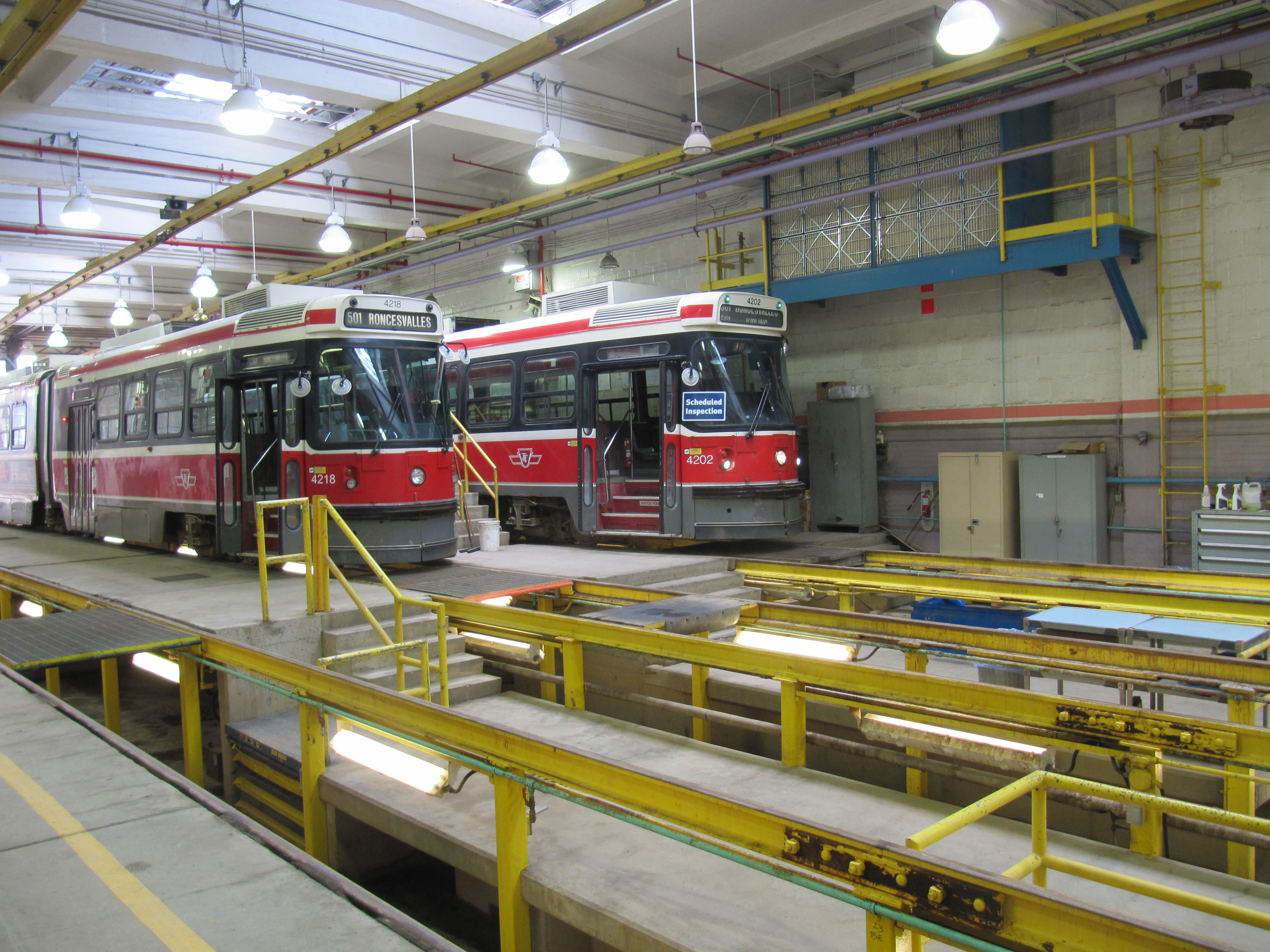 Streetcar repair garage at Roncesvalles Carhouse during Doors Open Toronto 2011.